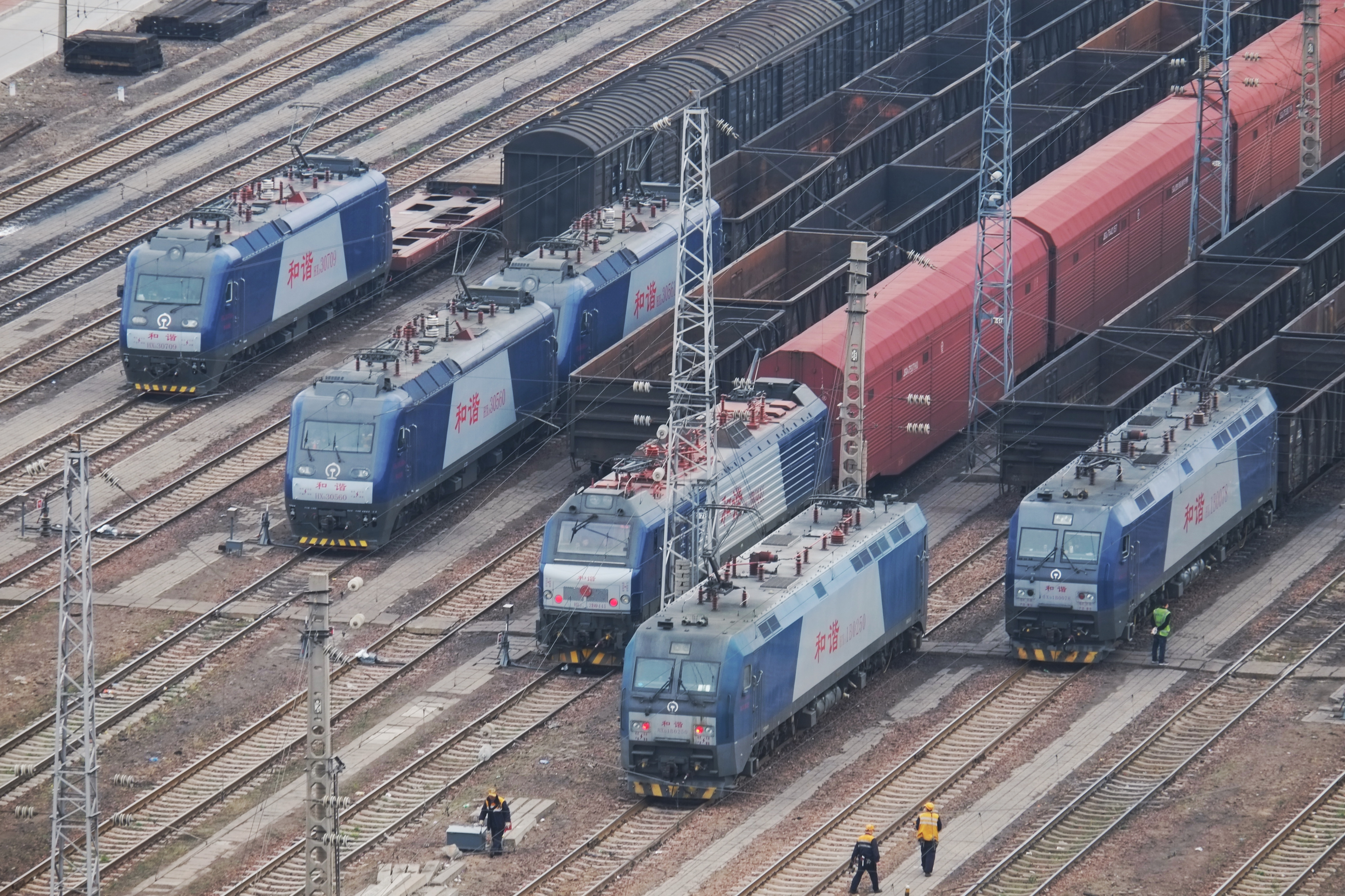 Locomotives at Zhengzhou North Railway Station